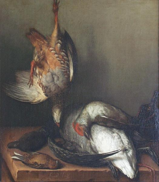 Dead Birds